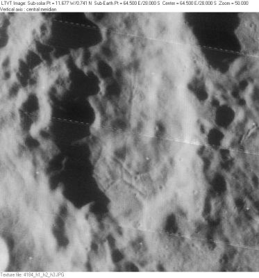 LOIV-184-H2 Palitzsch is at the south end of the elongated trench known as Vallis Palitzsch. The boundary between the two does not seem to be clearly defined in the IAU nomenclature.